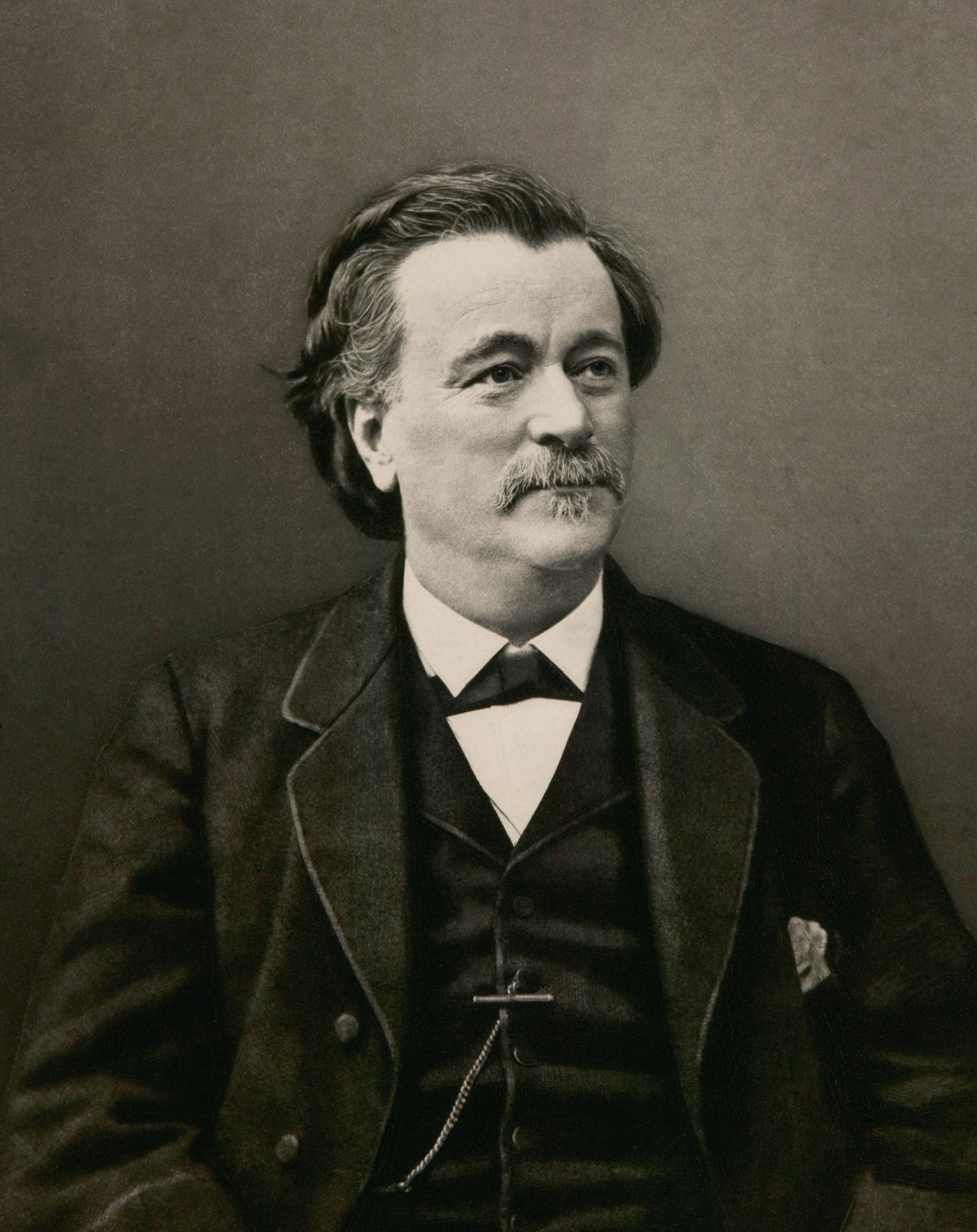 French physiologist and politician Paul Bert (1833-1886)